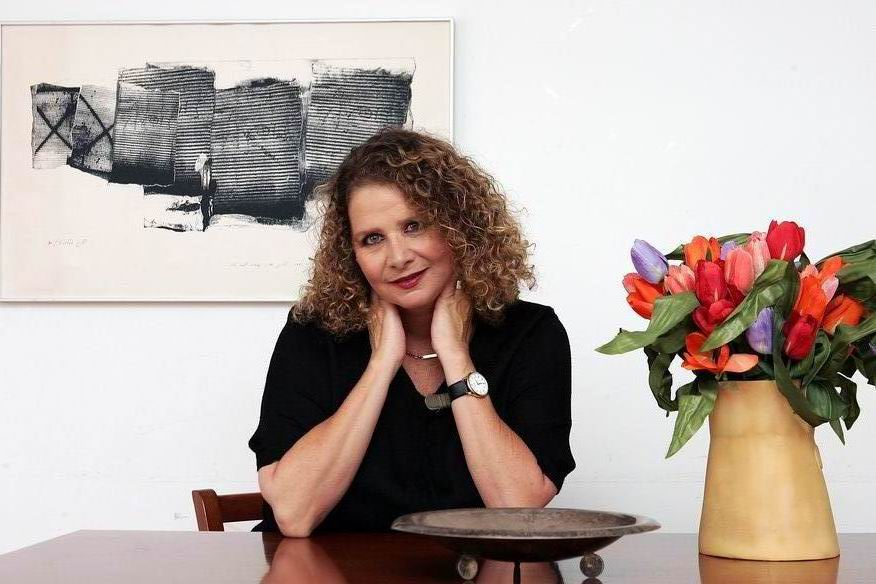 Nitza Gonen